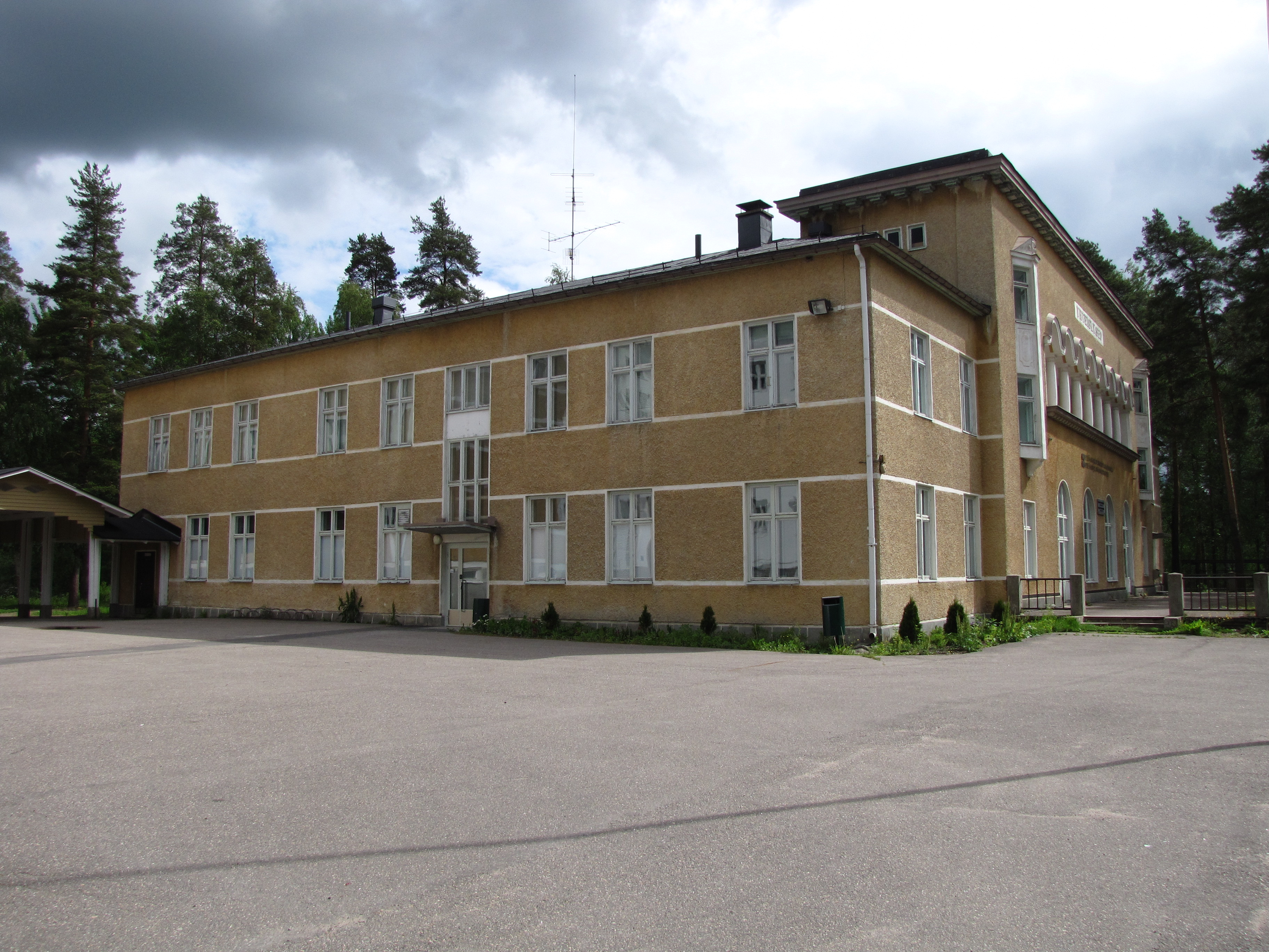 Saimaa polytechnic school Itä-Vuoksi campus, former building of Imatrankoski upper secondary school in Imatra. Originally built as a hotel in 1914, converted to a school in 1923. Imatran yhteiskoulu 1923–1949, Imatran yhteislyseo 1949–1975, Imatrankosken lukio 1975–1994, Imatran yhteislukio 1994–1999.